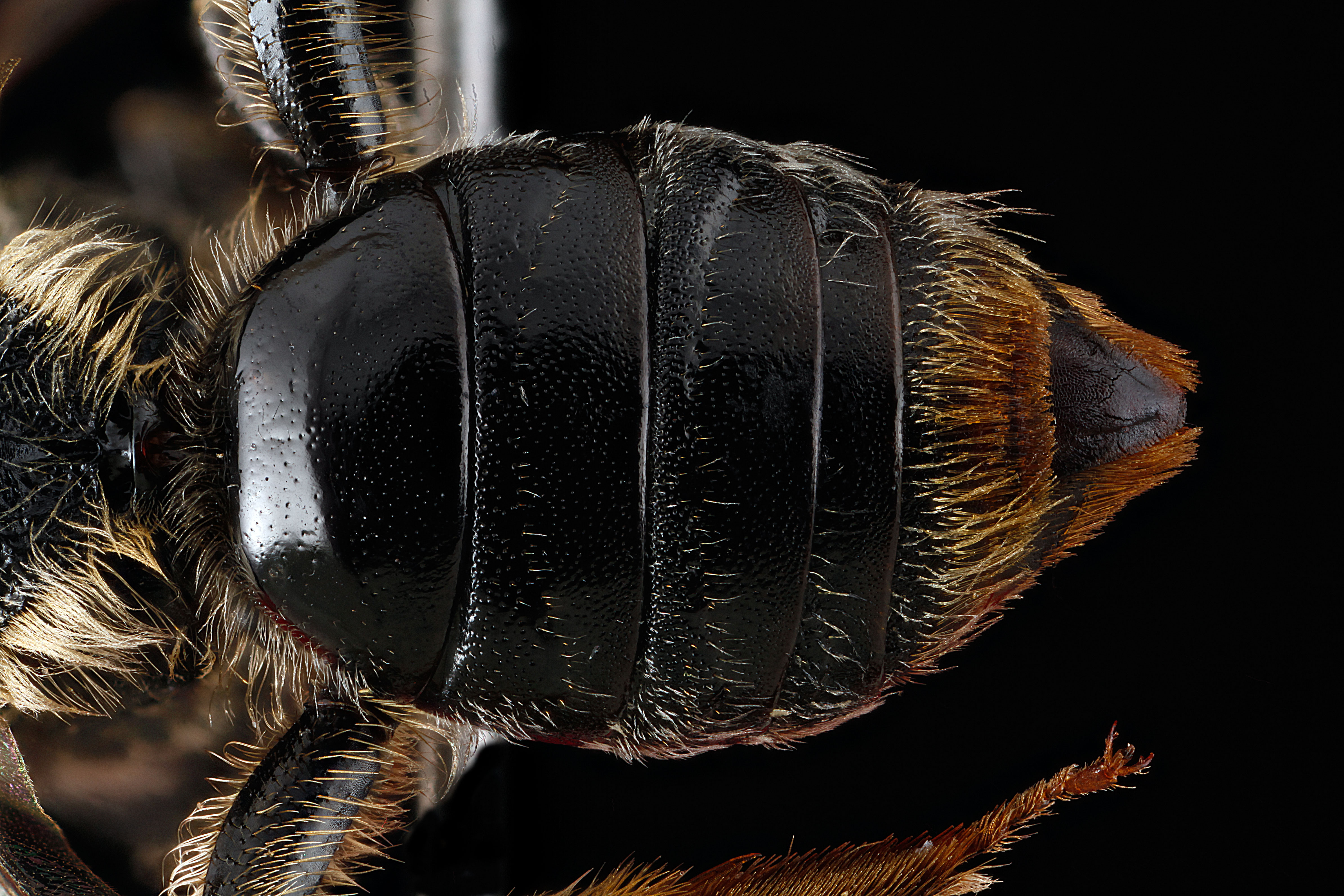 Andrena spiraeana, female, detail of the tergites